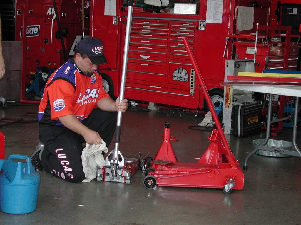 Preparing for race by oiling and cleaning the jack